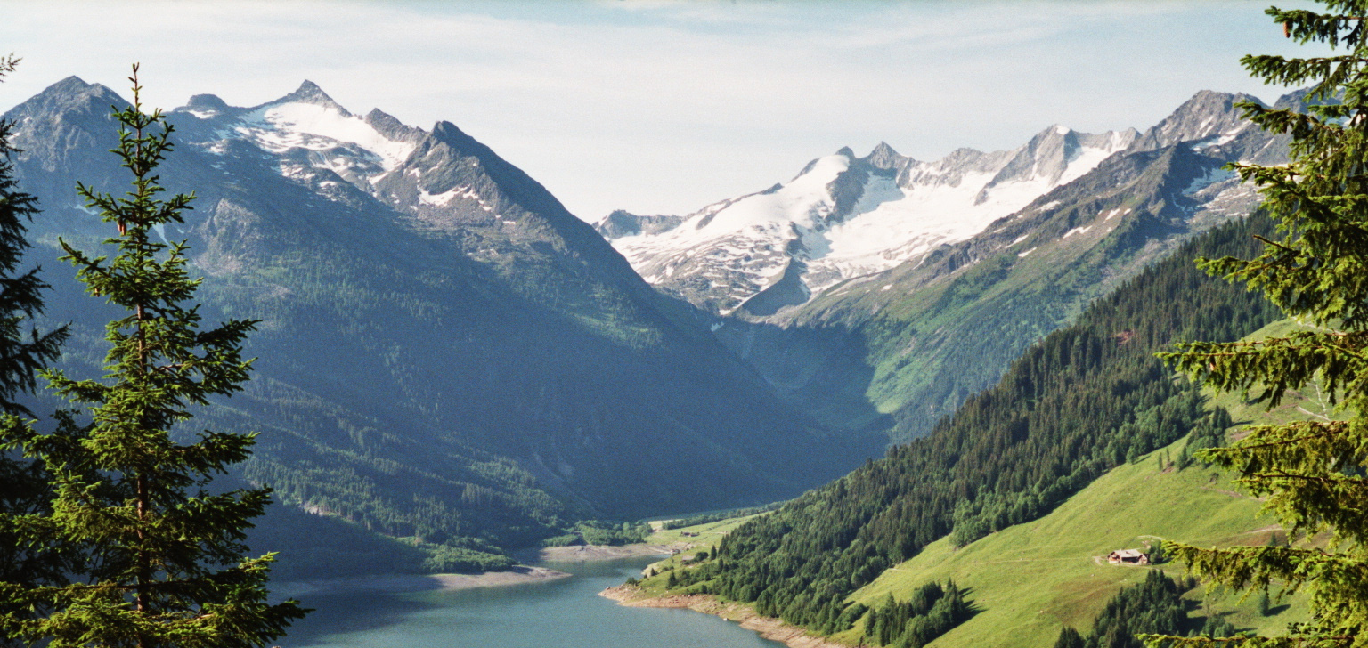 View from the Gerlospass to the Wildgerlostal. In the foreground the Durlaßboden-Speicher